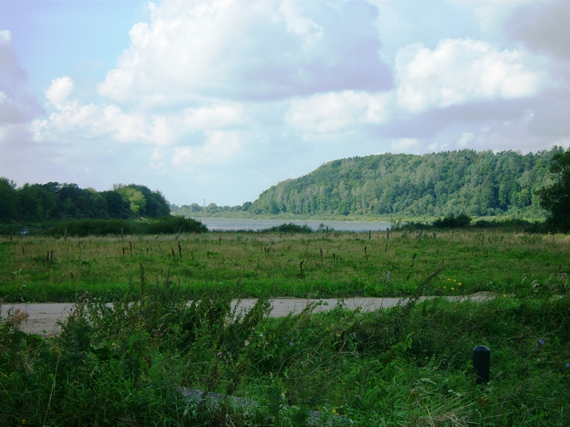 Rambynas (right)